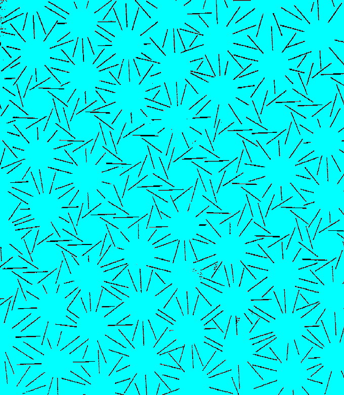 Image giving the optical illusion of circles